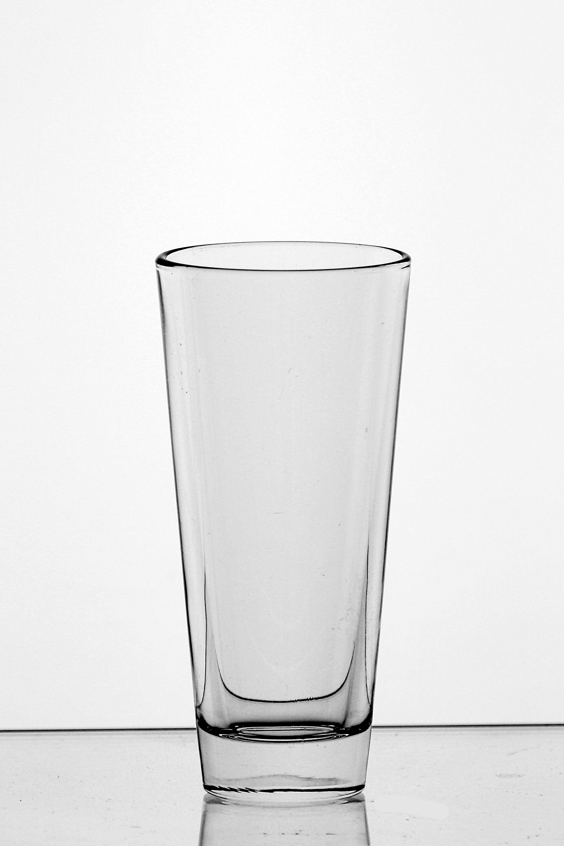 Cocktail glass.